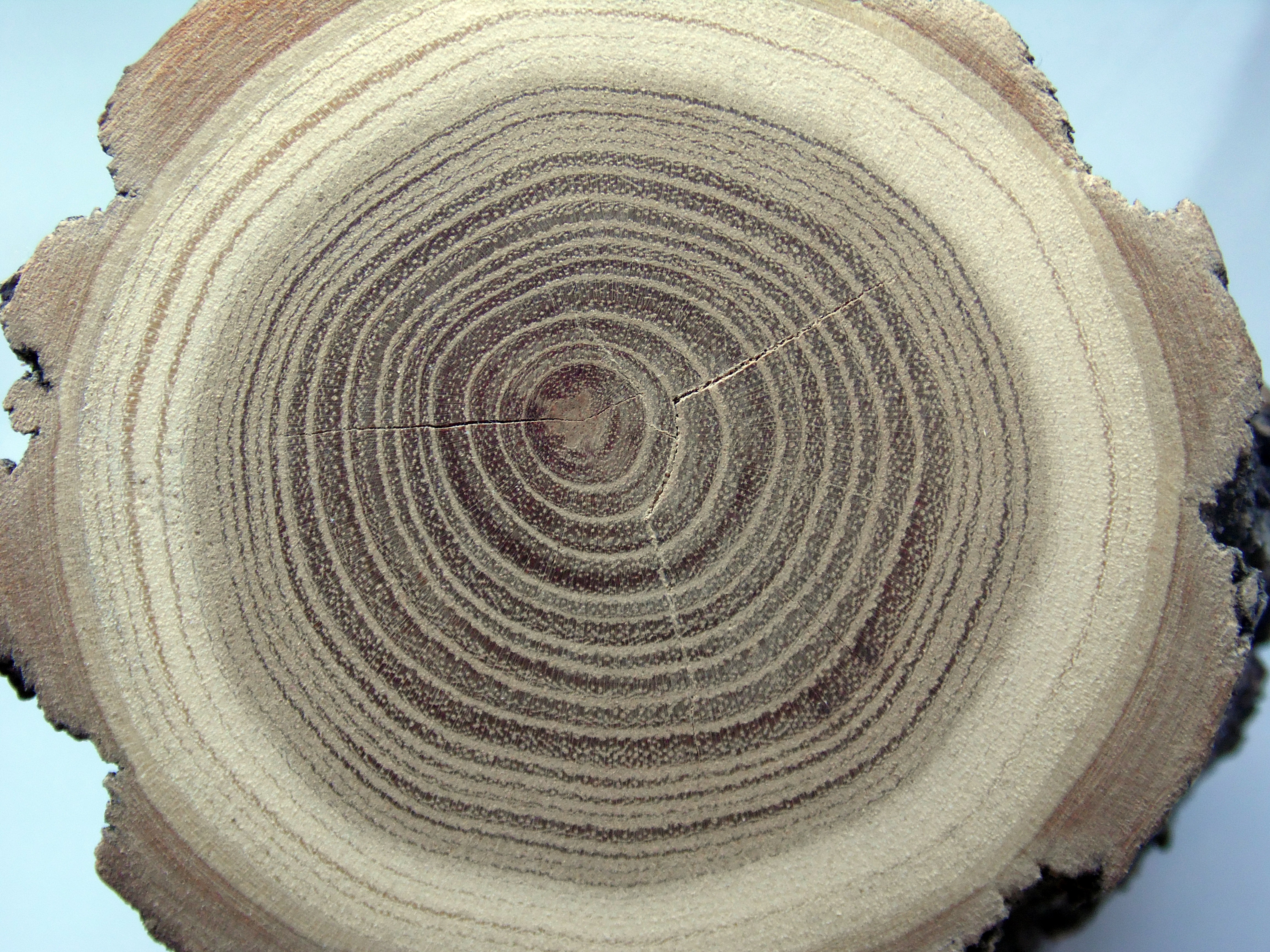 Robinia pseudoacacia cross section